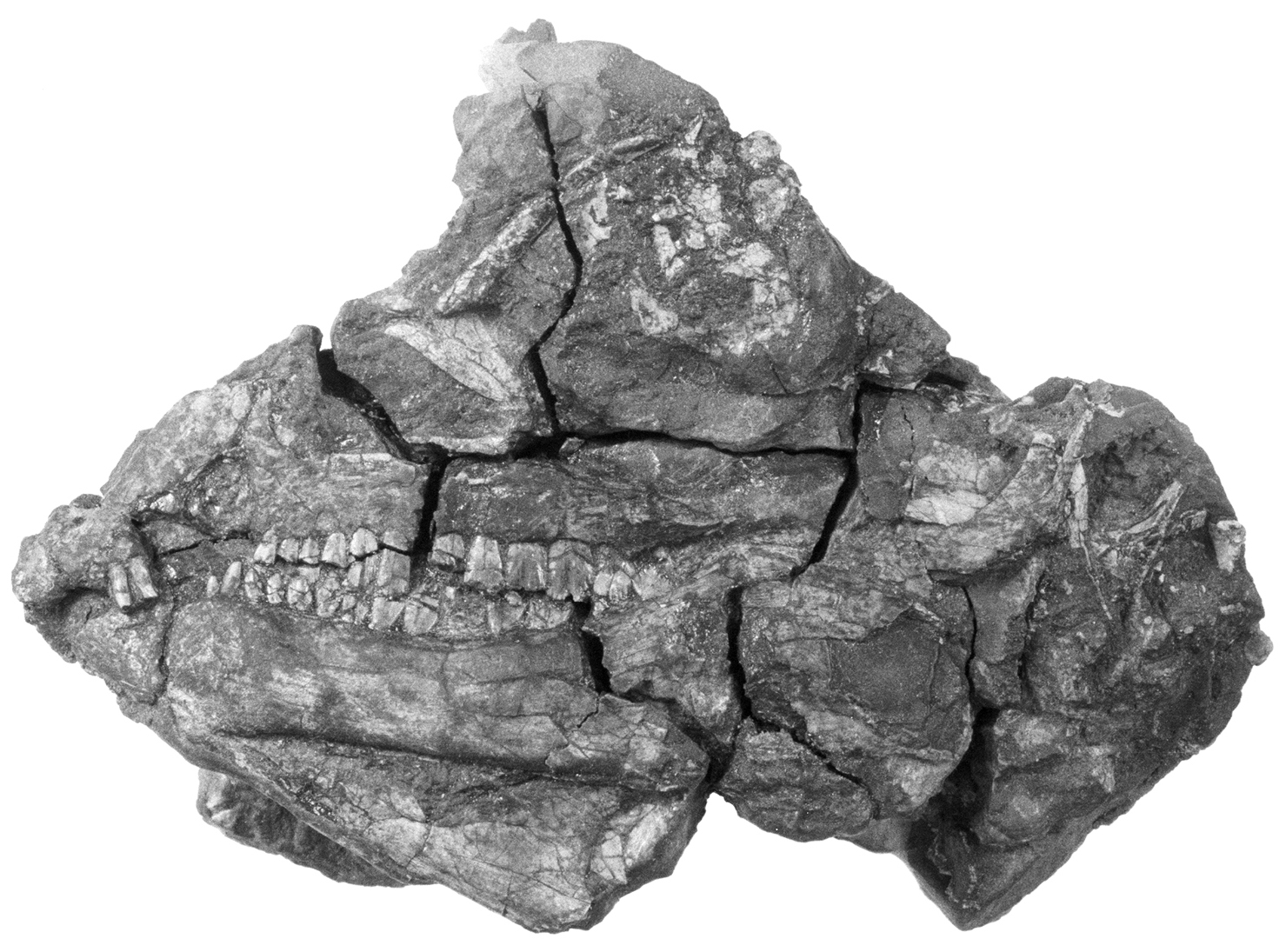 Partial skull of Abrictosaurus consors in left lateral view (NHMUK RU B54)